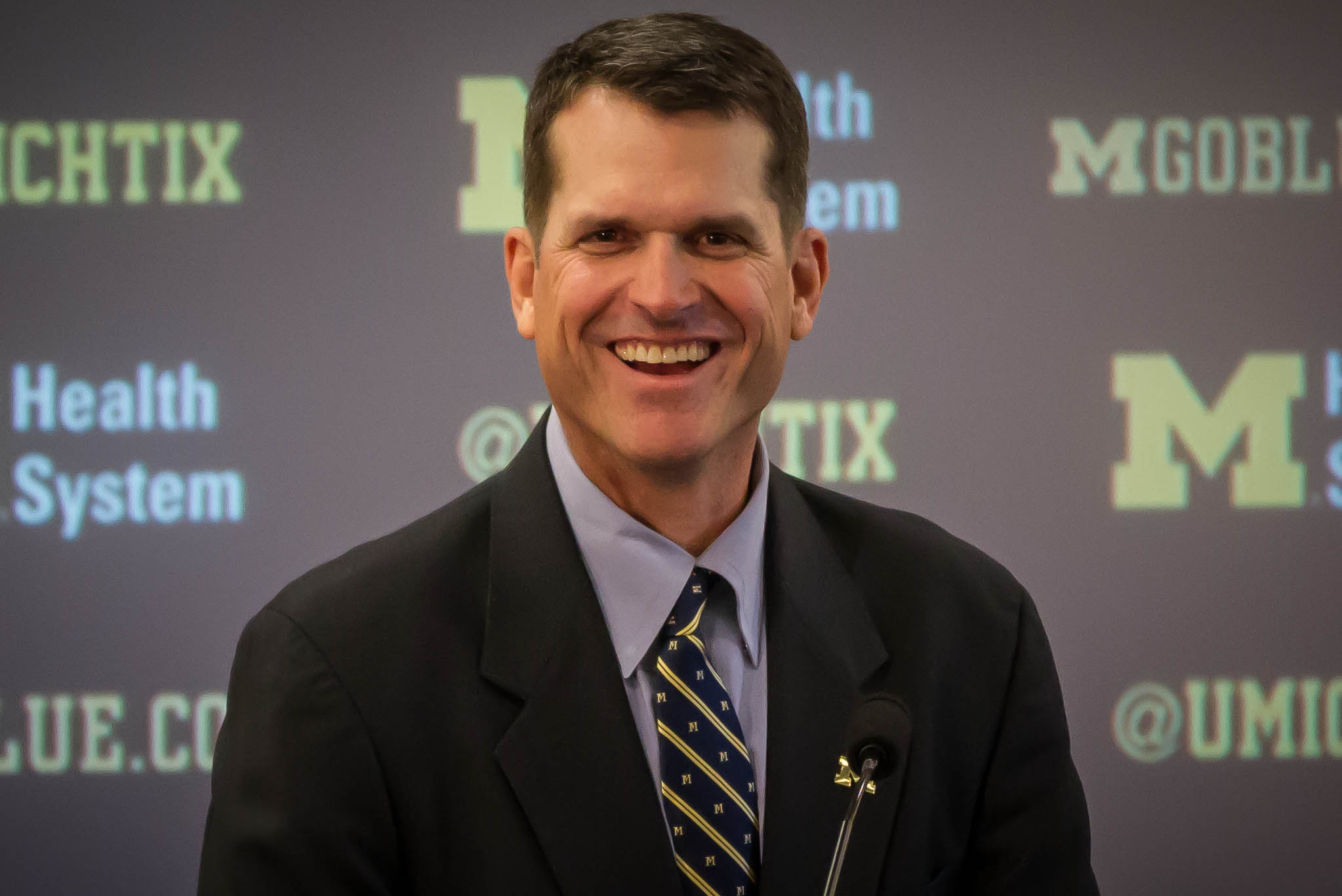 Photo of Jim Harbagh from his introductory press conference at the University of Michigan.